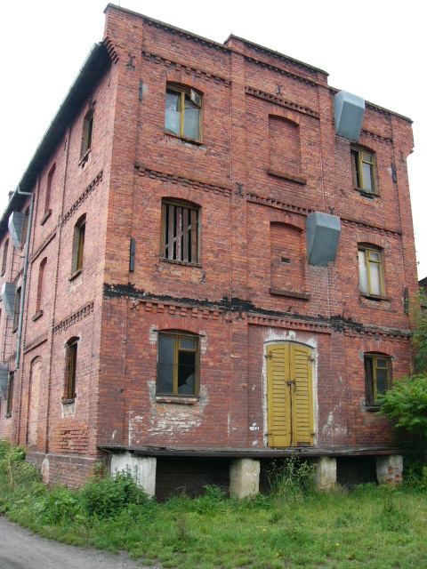 The mill in Pobiel